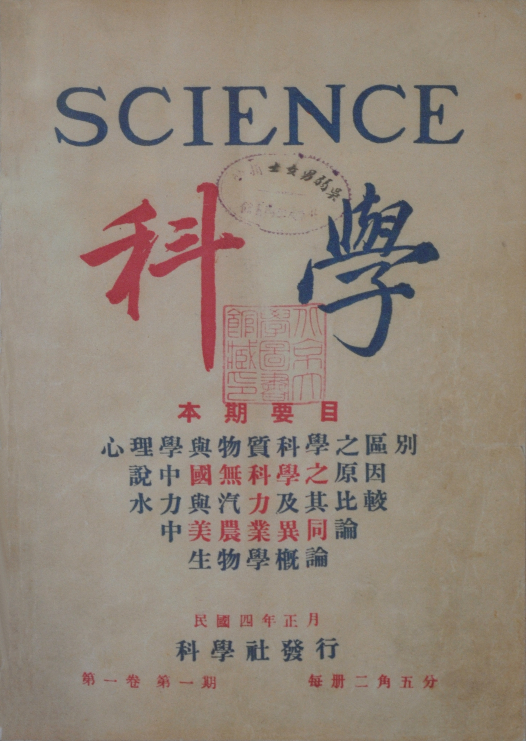 Cover of Chinese Science Magazine, Vol. 1 No. 1,published in 1915